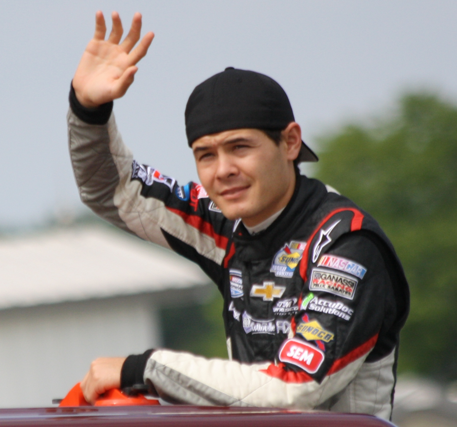 NASCAR driver Kyle Larson at the 2013 Johnsonville Sausage 200 Nationwide Series race at Road America.